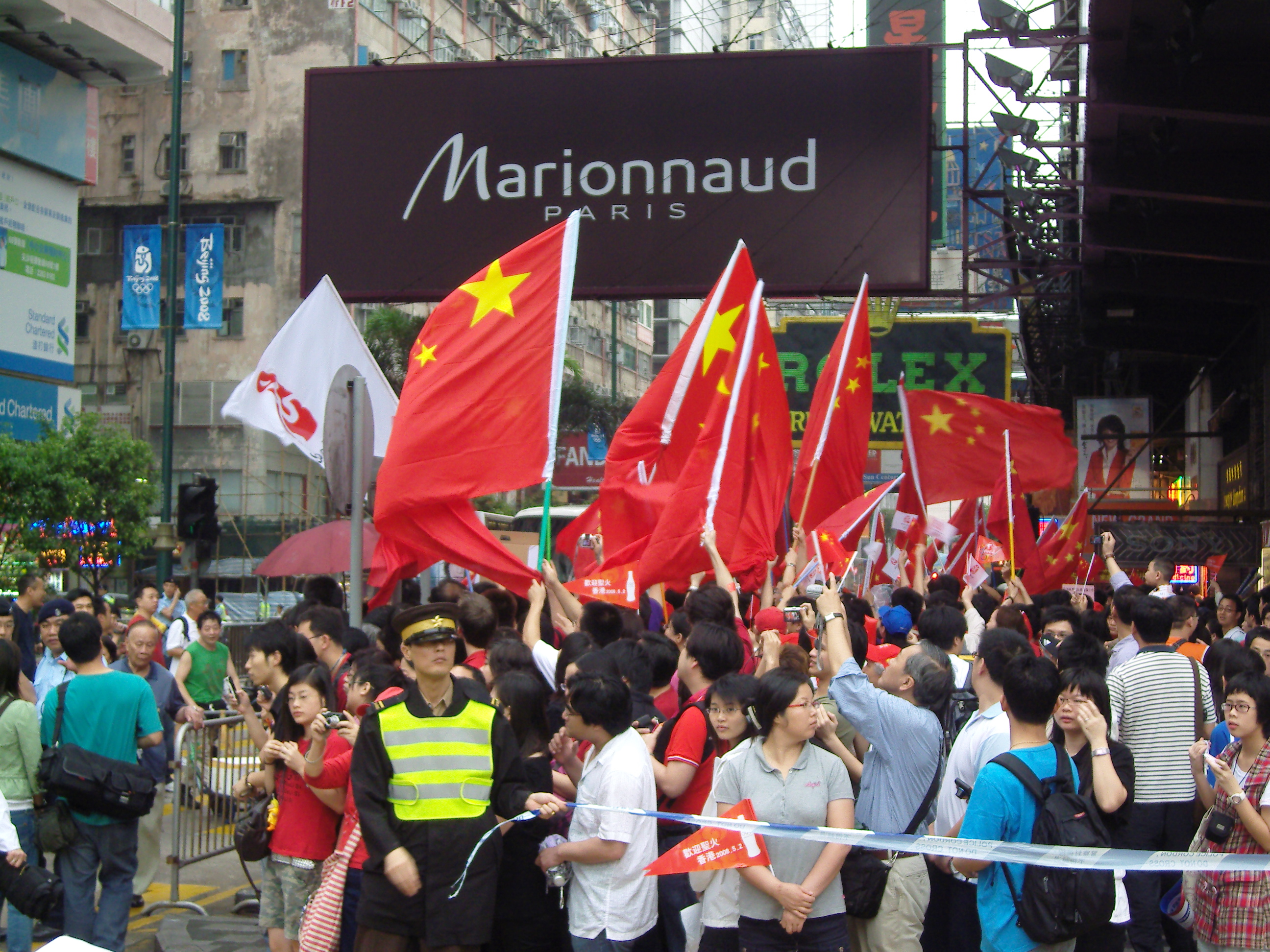 2008 Summer Olympics Torch in Tsim Sha Tsui, Hong Kong.